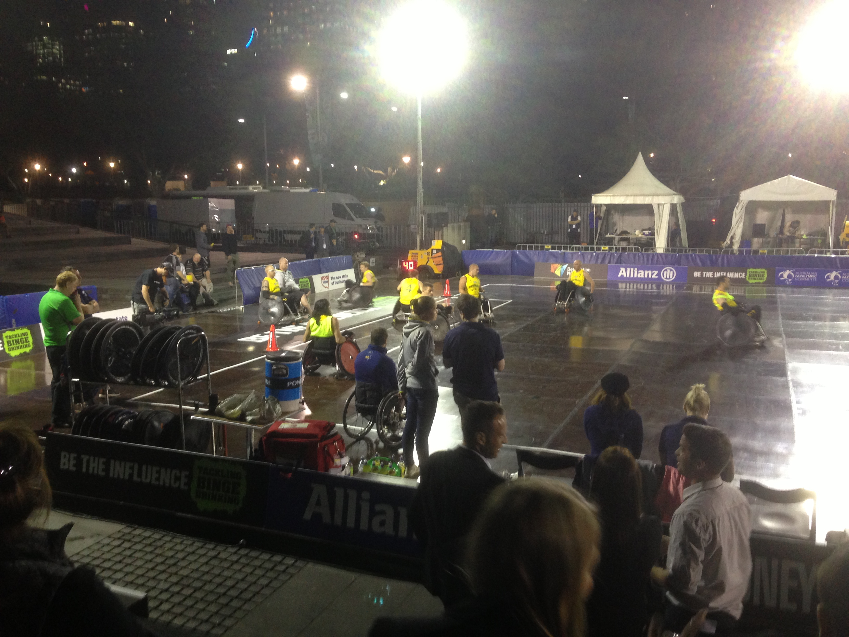 Wheelchair Rugby Tri-Nation series - night match - Australia v United States